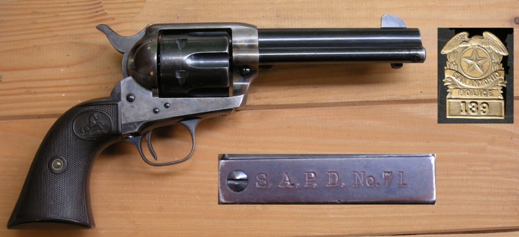 Colt SAA SAPD No 71